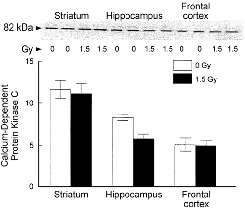 Figure 6-6. Brain-region-specific calcium-dependent protein kinase C expression was assessed in control and irradiated rats using standard Western blotting procedures. Values are means ± SEM (standard error of mean) (Denisova et al., 2002) . Other information Page 203